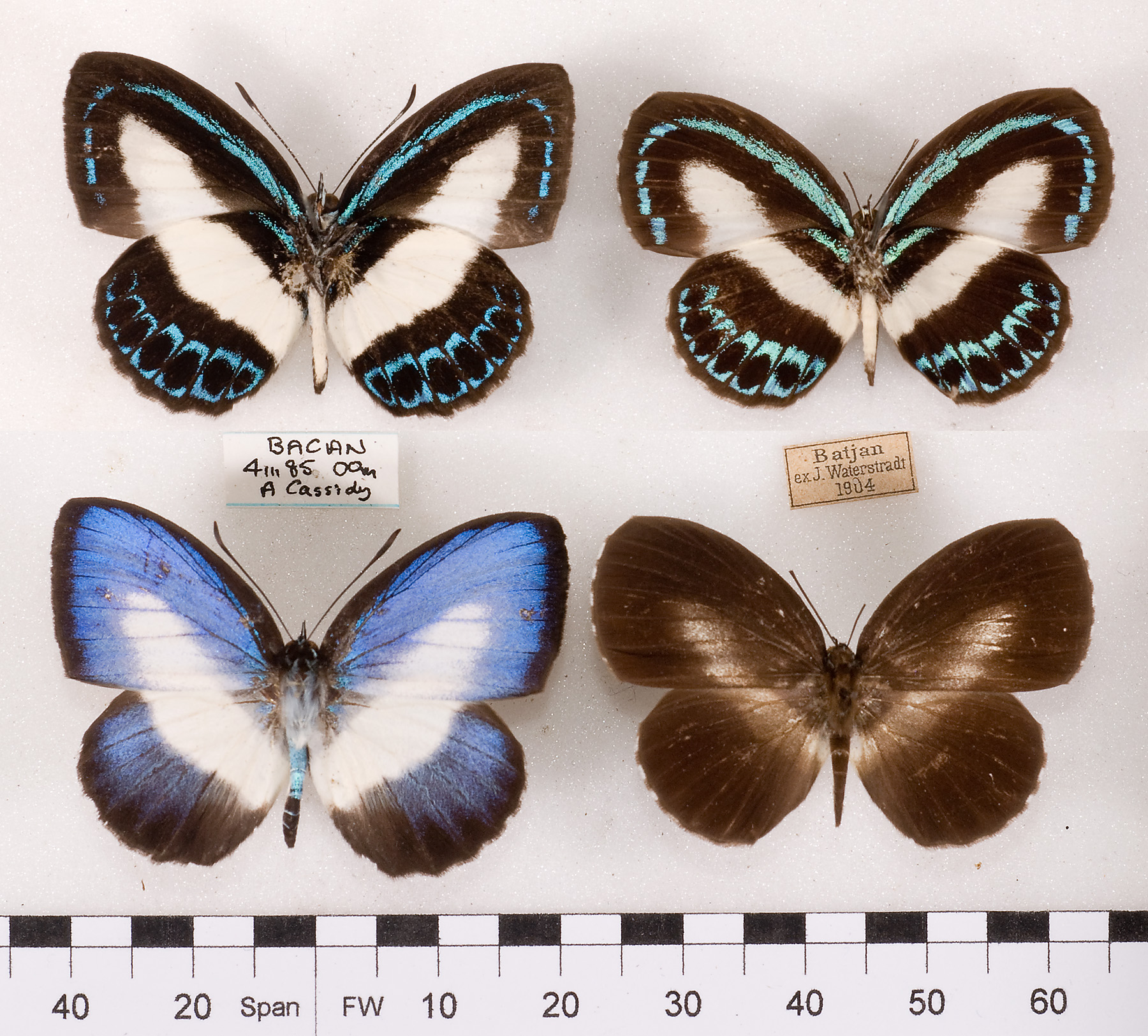 Danis danis philostratus, male, female, set specimens, Batjian, Alan Cassidy photo.